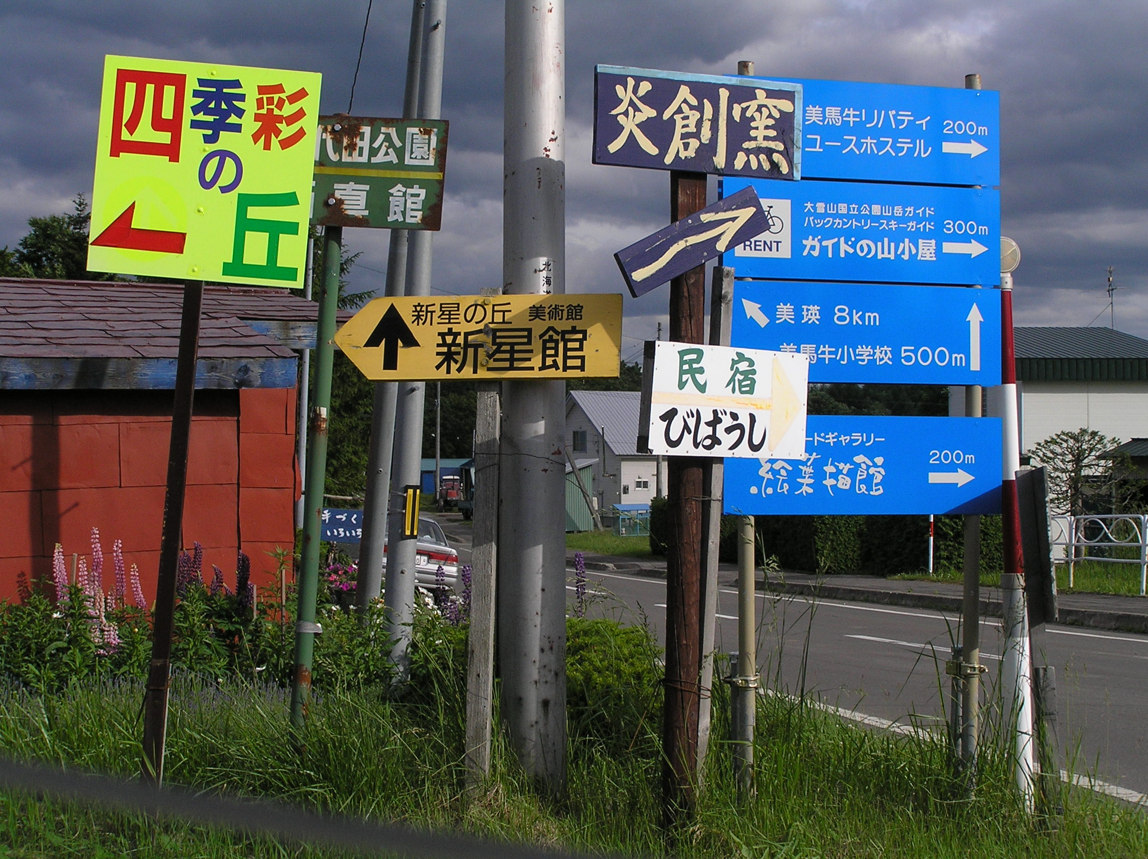 sign-hokkaido 6300005 北海道の案内看板